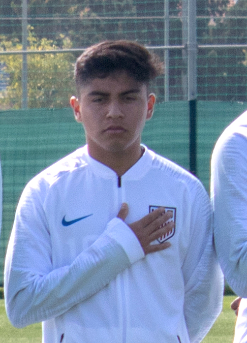 USA U20 v France U20, 22 March 2019